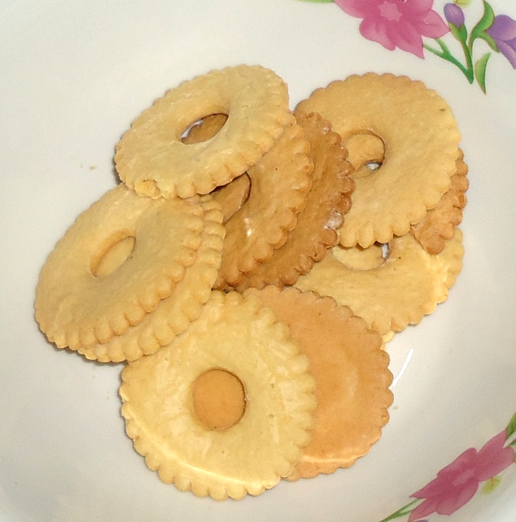 Traditional Philippine cookies originally created by Margarita "Titay" T. Frasco in 1907 in Liloan, Cebu.